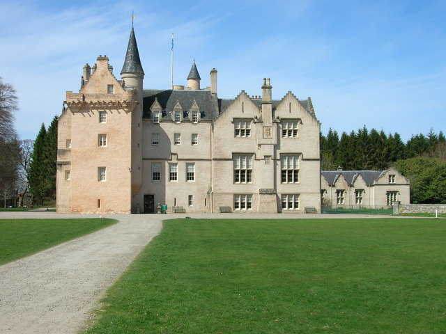 Brodie Castle The original castle was built in 1567 by Clan Brodie but destroyed by fire in 1645 by Clan Gordon. It was greatly expanded in 1824 by the architect William Burn who turned it into a fortified house. The castle is now in the care of National Trust for Scotland and open to the public.